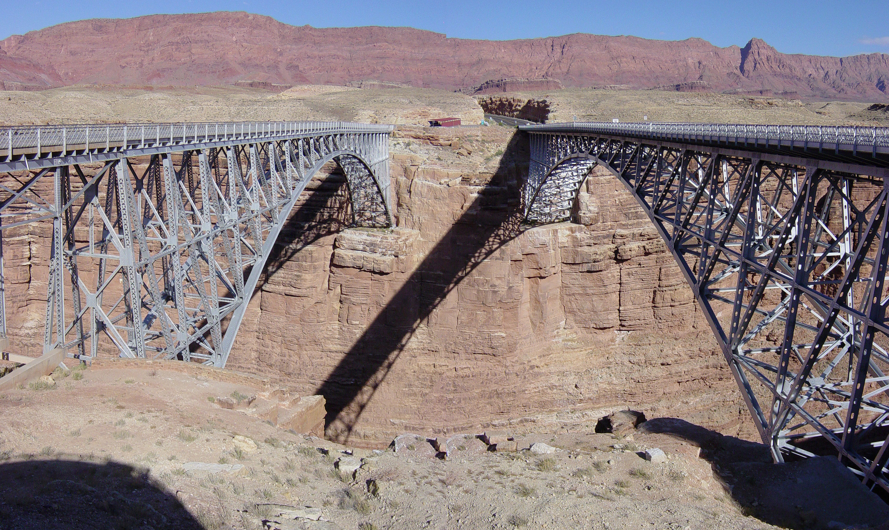 The 1929 Navajo Bridge at left, and the 1995 Navajo Bridge at right. These bridges cross the Colorado River at Marble Canyon. The Echo Cliffs are in the backround, to the east. The original bridge was the highest in the world at the time, replacing the Lee's Ferry crossing on the river. It was the only bridge crossing the Colorado River for over 600 miles. Despite the sparsely populated region, over 5,000 people attended the dedication. Original Bridge, at left Dedicated: June 14-15, 1929 Construction cost: $390 thousand Total length: 834 ft (254 m) Steel arch length: 616 ft (188 m) Arch rise: 90 ft (27.4 m) Height above river: 467 ft (142 m) Width of the roadway: 18 ft (5.5 m) Amount of steel: 2.4 million lbs (1,089,000 kg) Amount of concrete: 500 cu yds (385 m3 Amount of steel reinforcement: 8,200 lbs (3,700 kg) New Bridge, at right The main pin was set October 14, 1994, after seven months of construction. Construction cost $14.7 million Total length: 909 ft (277 m) Steel arch length: 726 ft (221 m) Arch rise 90: ft (27.4 m) Height above river: 470 ft (143 m) Width of the roadway: 44 ft (13.4 m) Amount of steel: 2.4 million lbs (1,089,000 kg) Amount of concrete: 1,790 cu yds (1370 m3 Amount of steel reinforcement: 3.9 million lbs (1,769,000 kg) Credits Two panel composite image with third image of bridge shadow by User:Leonard G.